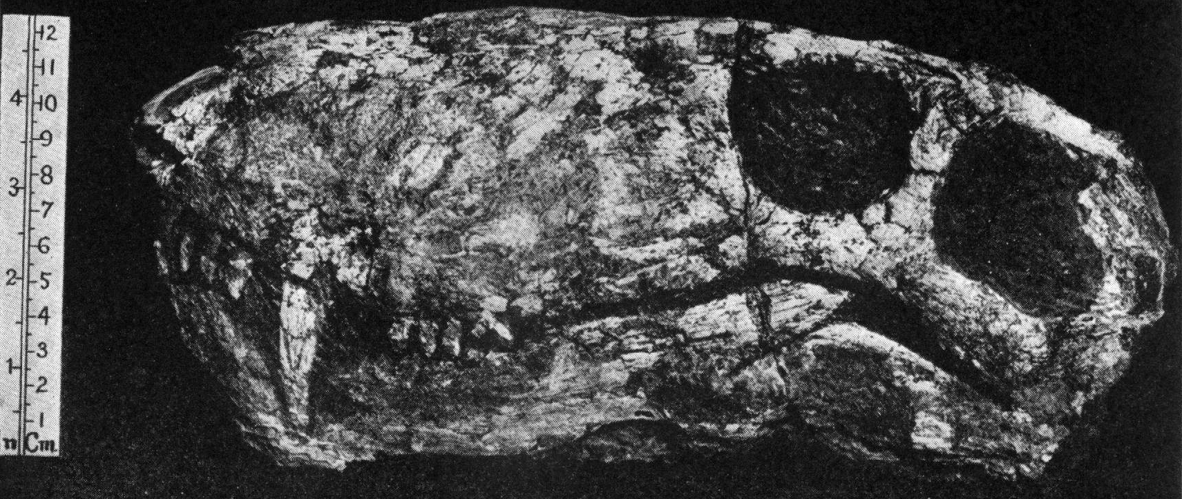 Gorgonops whaitsi skull, specimen 5537